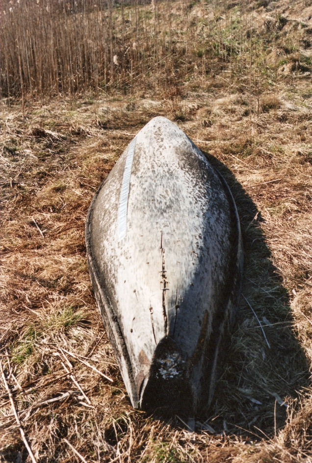 Belarus traditional board - Choven Беларуская (тарашкевіца): Выдзеўбаны човен - традыцыйны тып сродка перасоўваньня па вадзе (рака, возера)